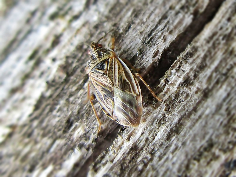 Chilacis typhae (Lygaeidae) (Bulrush bug) - (imago), Elst (Gld) - De Park, the Netherlands